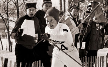 Swedish cross-country skier Toini Gustafsson Rönnlund at the Women's 5 kilometer race at the 1968 Winter Olympics Grenoble, France